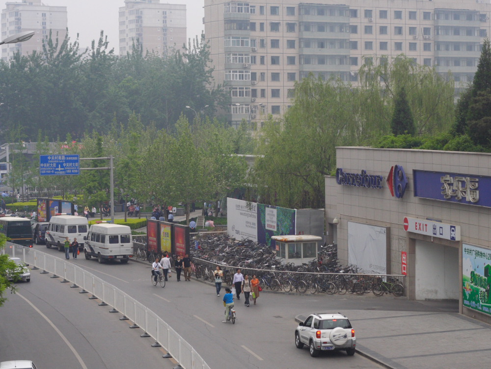 Carrefour store in Beijing Zhongguancun. Two Patrol Police Cars are stopped at the entrance.